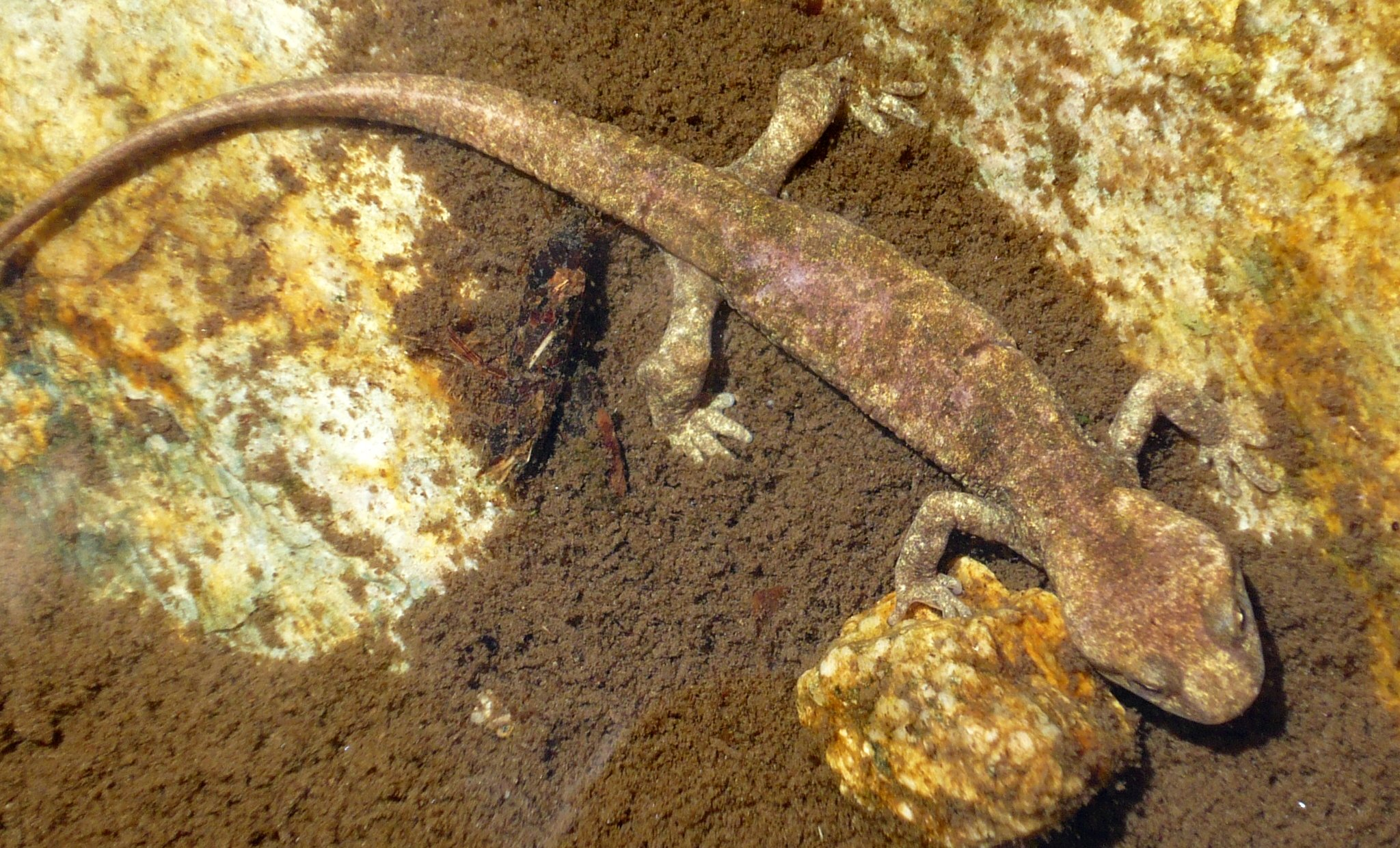 Euproctus montanus - adult male